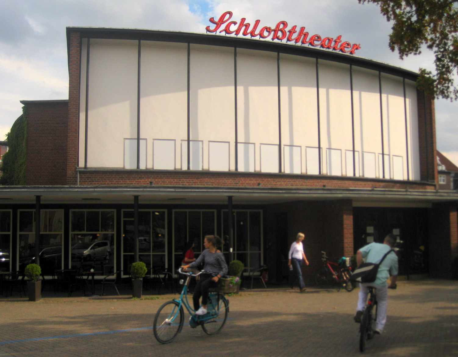 Cinema (1953) by architect Hans Ostermann in post-war Germany